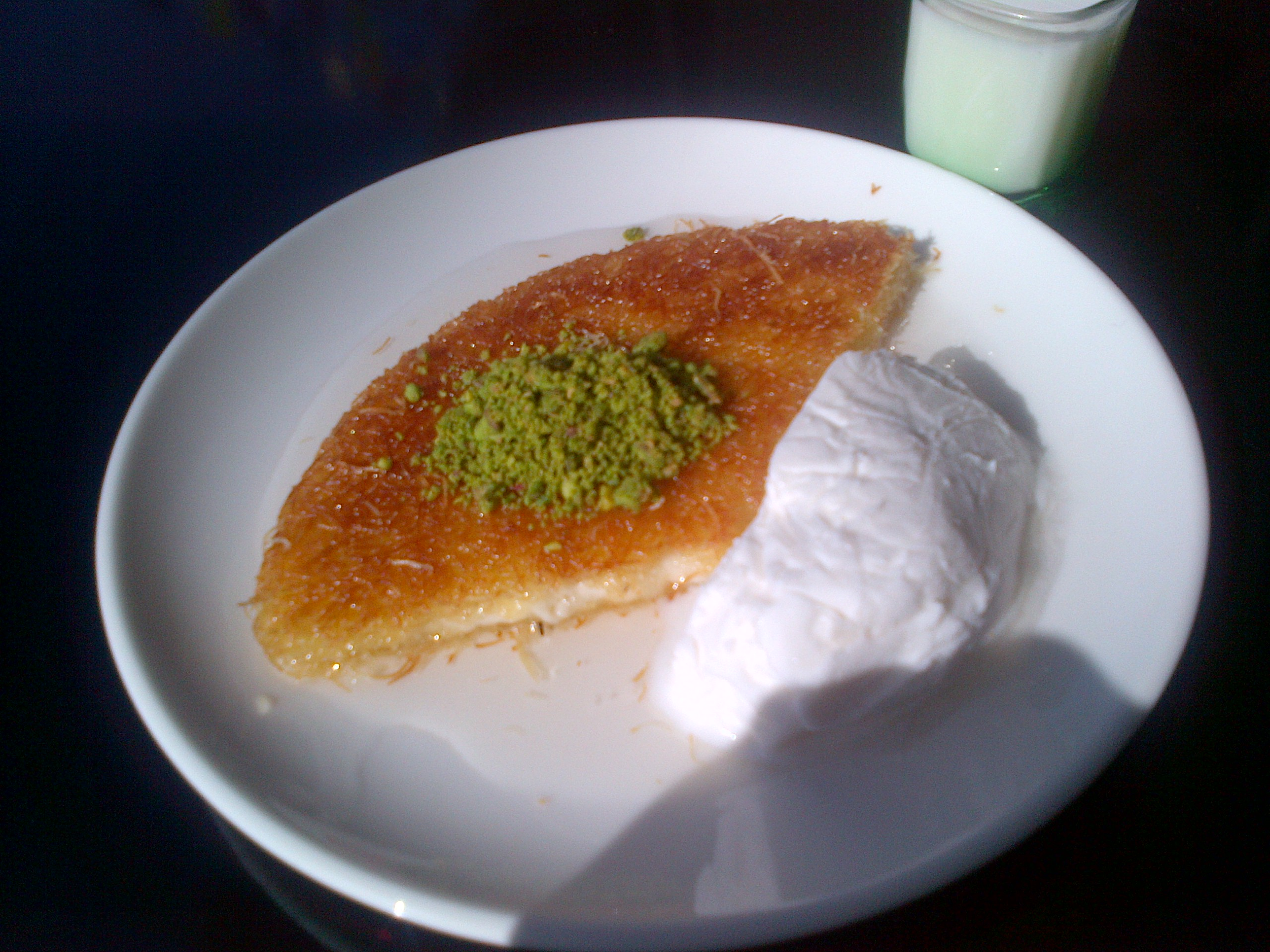 Künefe and "Maraş dondurması" at an Urfa künefe house in Ankara. Note the small glass of cold milk that traditionally accompanies künefe in Şanlıurfa.